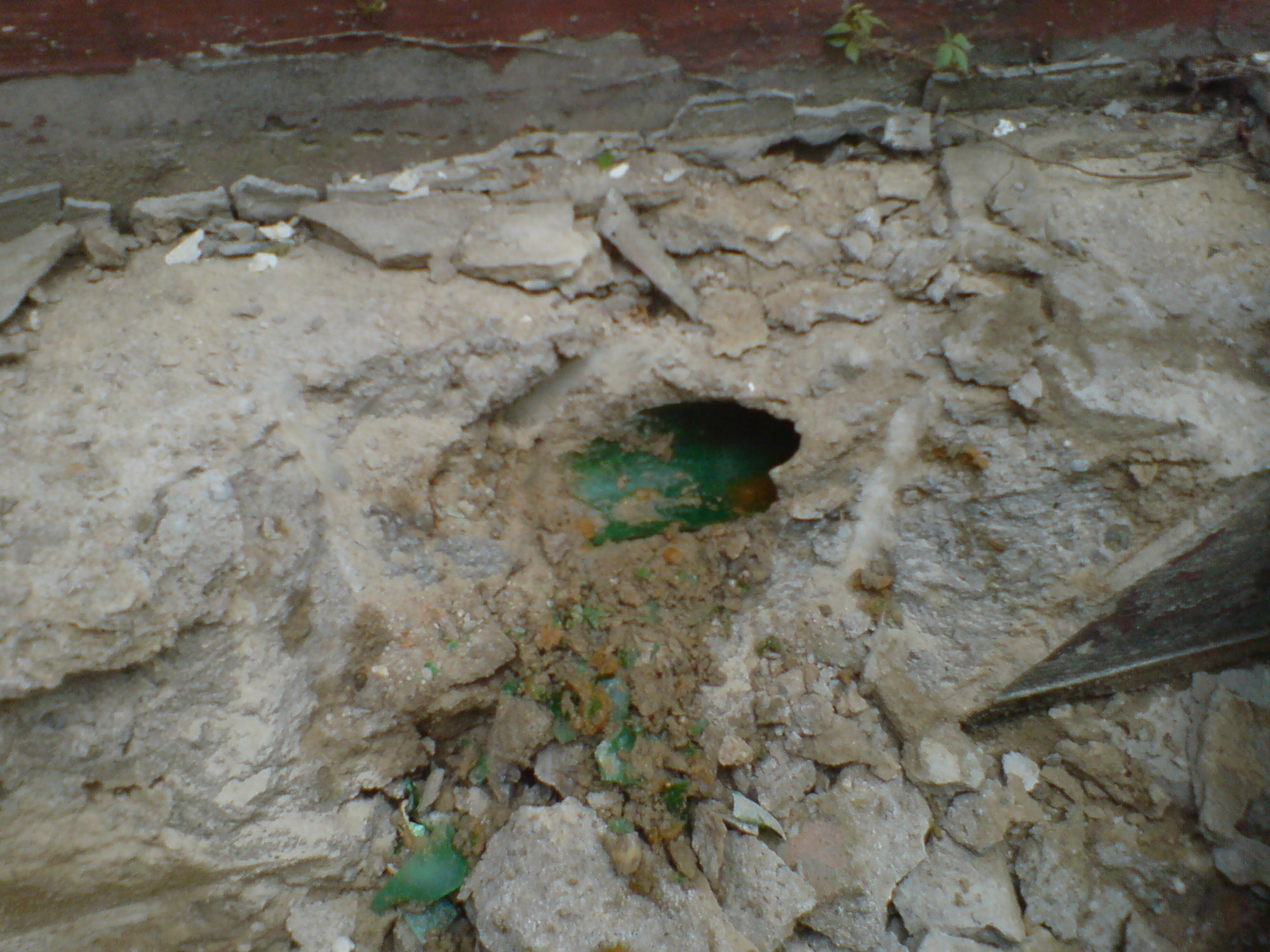 Bottlepost